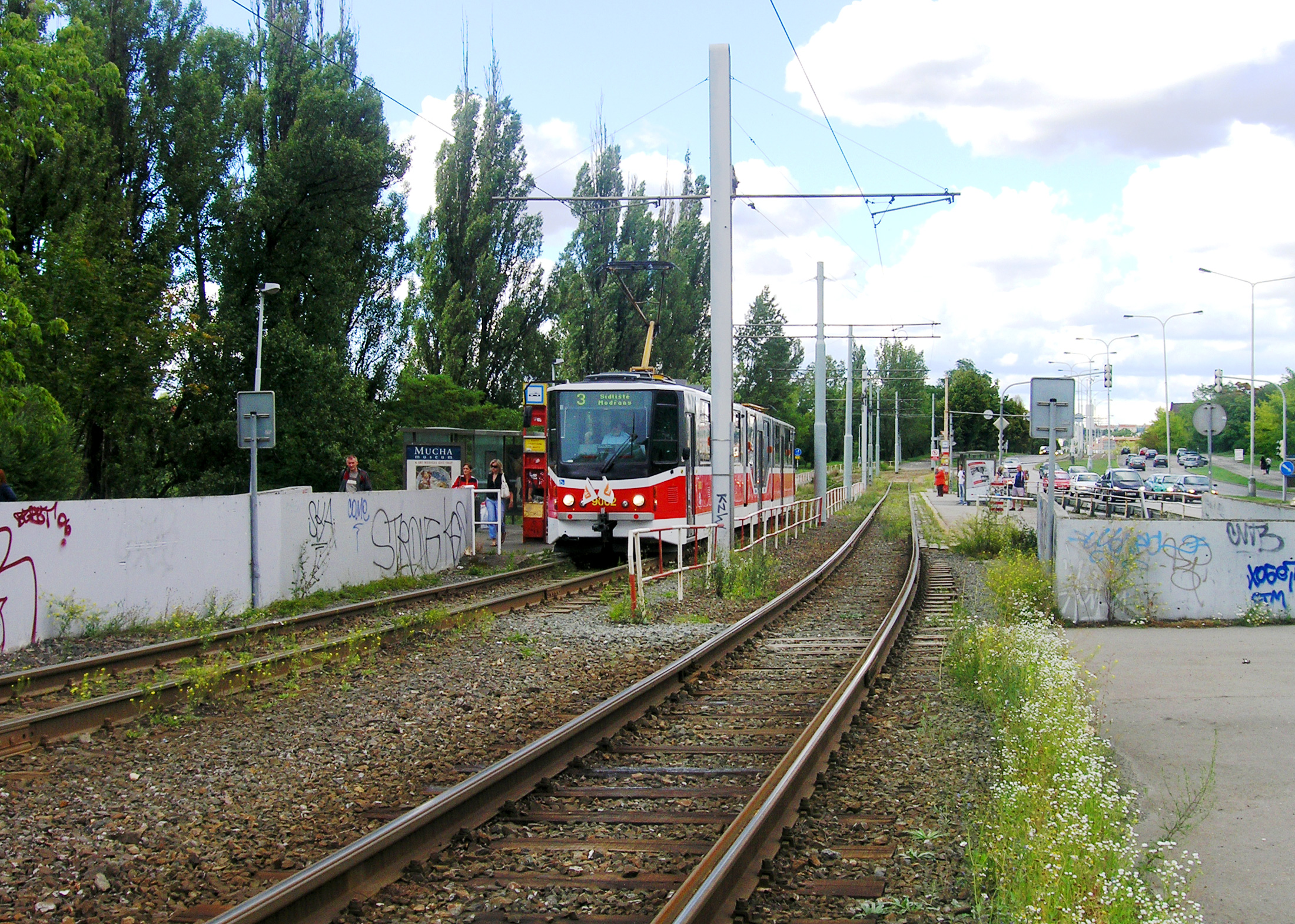 Tram track beside Modřanská street at Braník, Prague